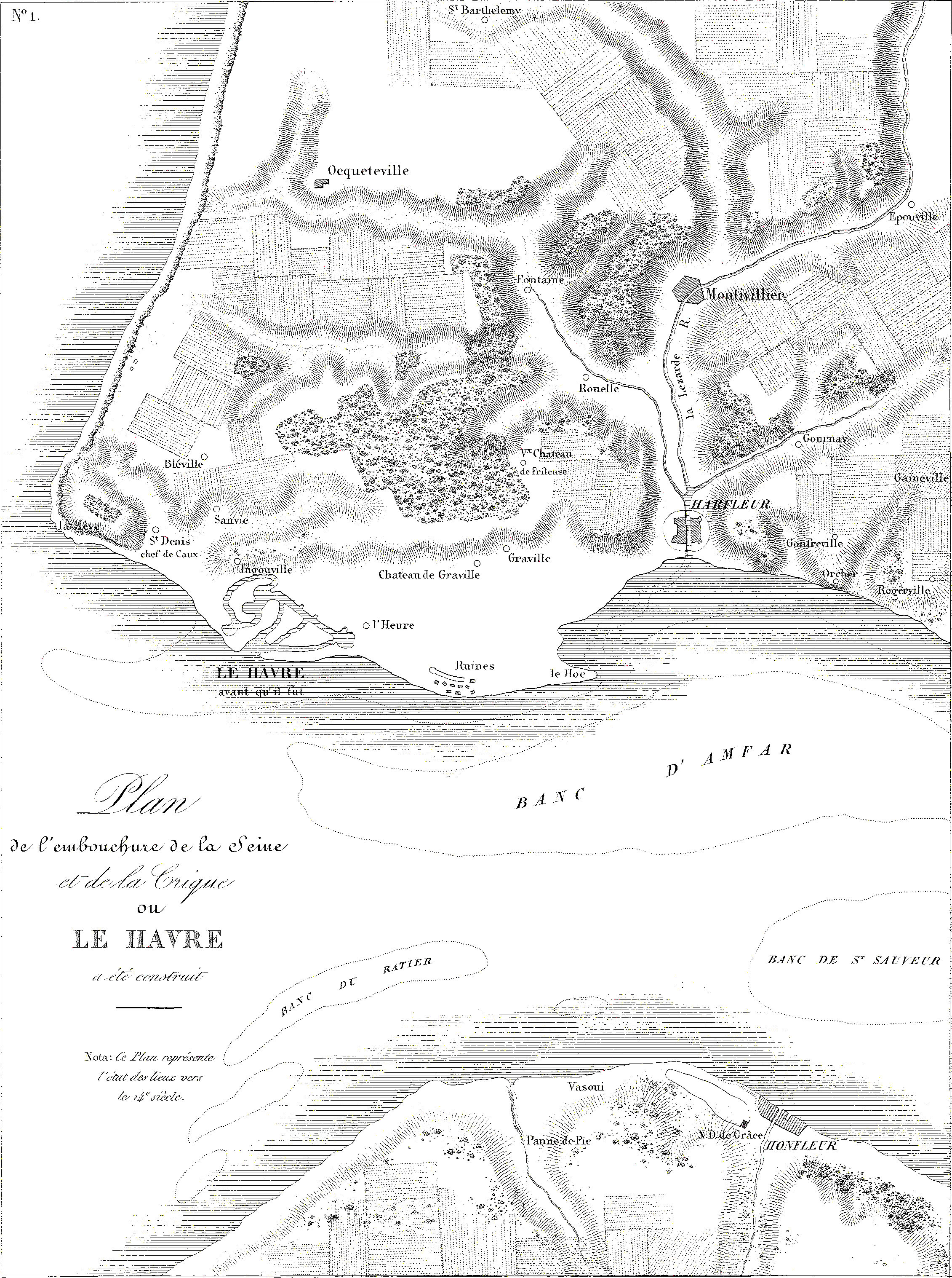 Estuary of la Seine before Le Havre was built.